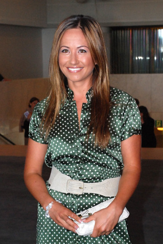 Jaana Pekonen during the 4th of July Celebration at the Finlandia hall, US Embassy in Finland.